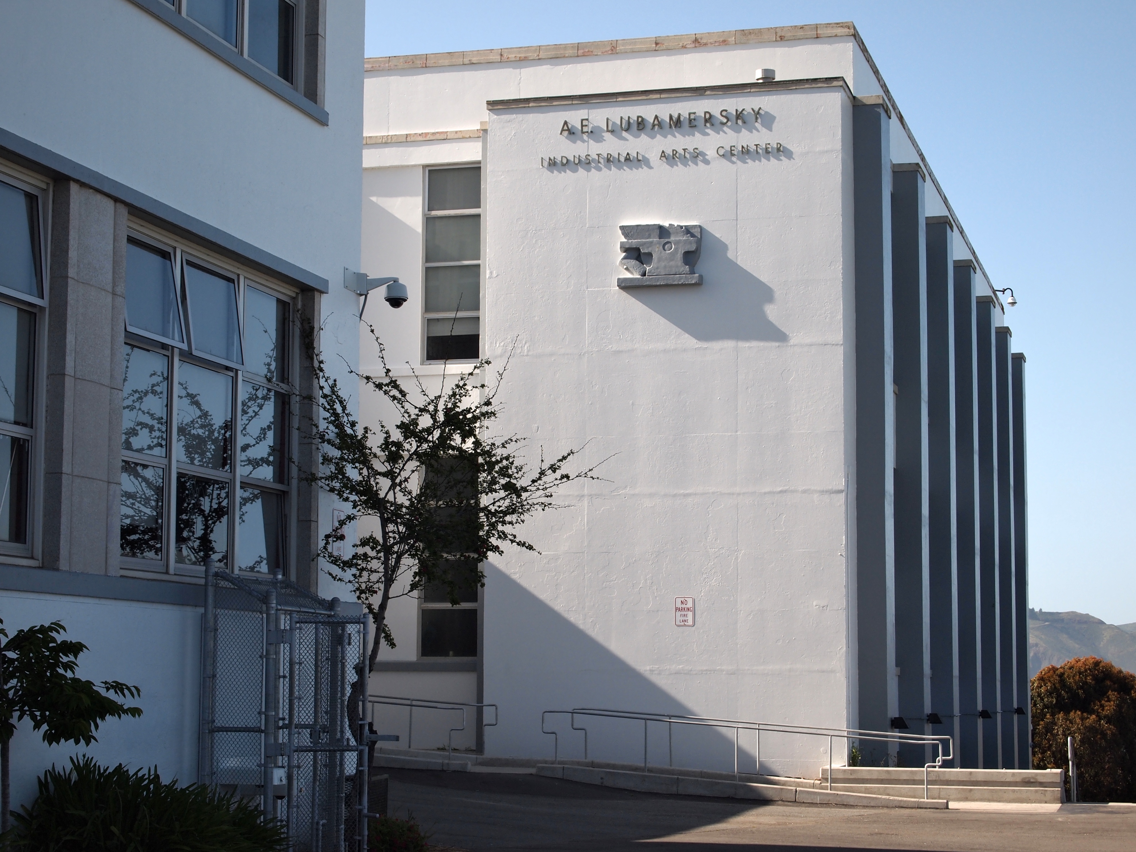 A. E. Lubamersky Industrial Arts Center, George Washington High School